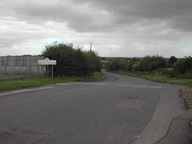 The highest point in Nottinghamshire. At 203 Metres and smack on the border of Notts/Derbys counties on Newtonwood Lane. It's only 1 Metre below the crest of the hill. There are great views all round from this point. The sign is for Ashfield District.